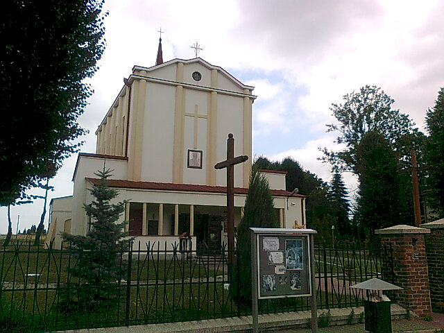 Babin, Lublin Voivodeship, Poland, July 2013